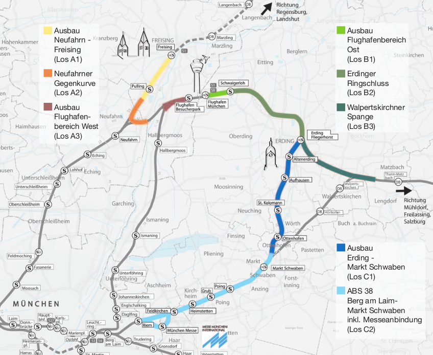 Overview of planned projects to connect Munich airport with east Bavaria: Neufahrner Gegenkurve (Neufahrn Nord), Erdinger Ringschluss, Walpertskirchener Spange, S-Bahn München Riem--Erding, railway München--Mühldorf(--Freilassing)